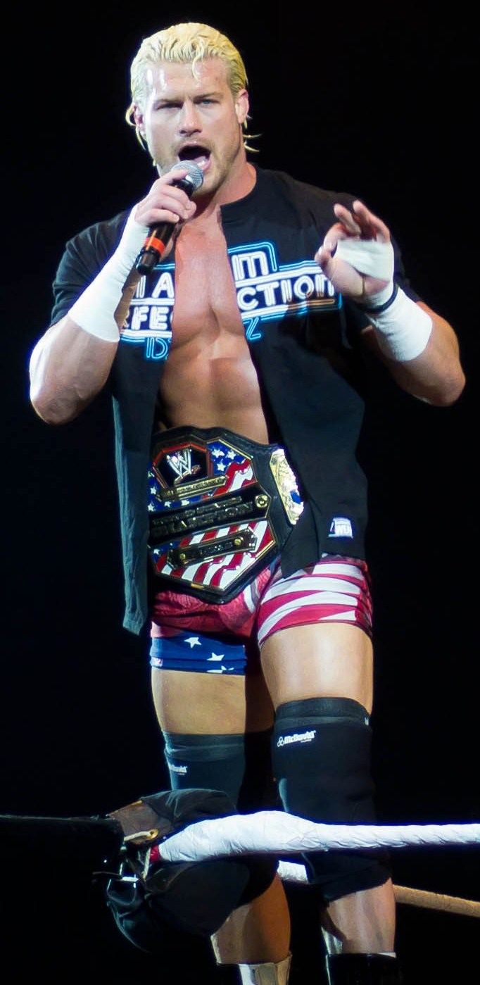 Dolph Ziggler, United States Champion, at a WWE Raw house show in London on November 11, 2011. Cropped from original.